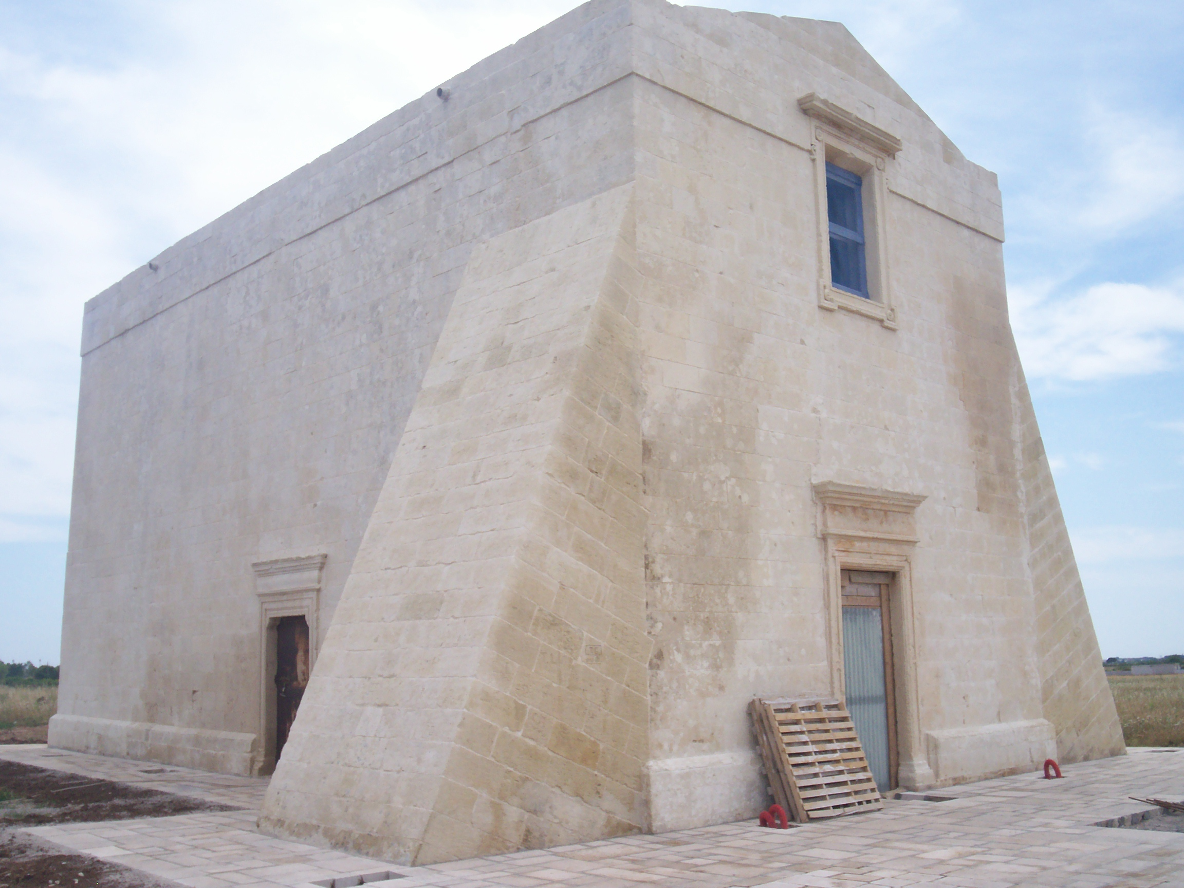 San Lorenzo's Church in Apigliano, in the outlying areas of Martano, province of Lecce - Apulia (Italy)